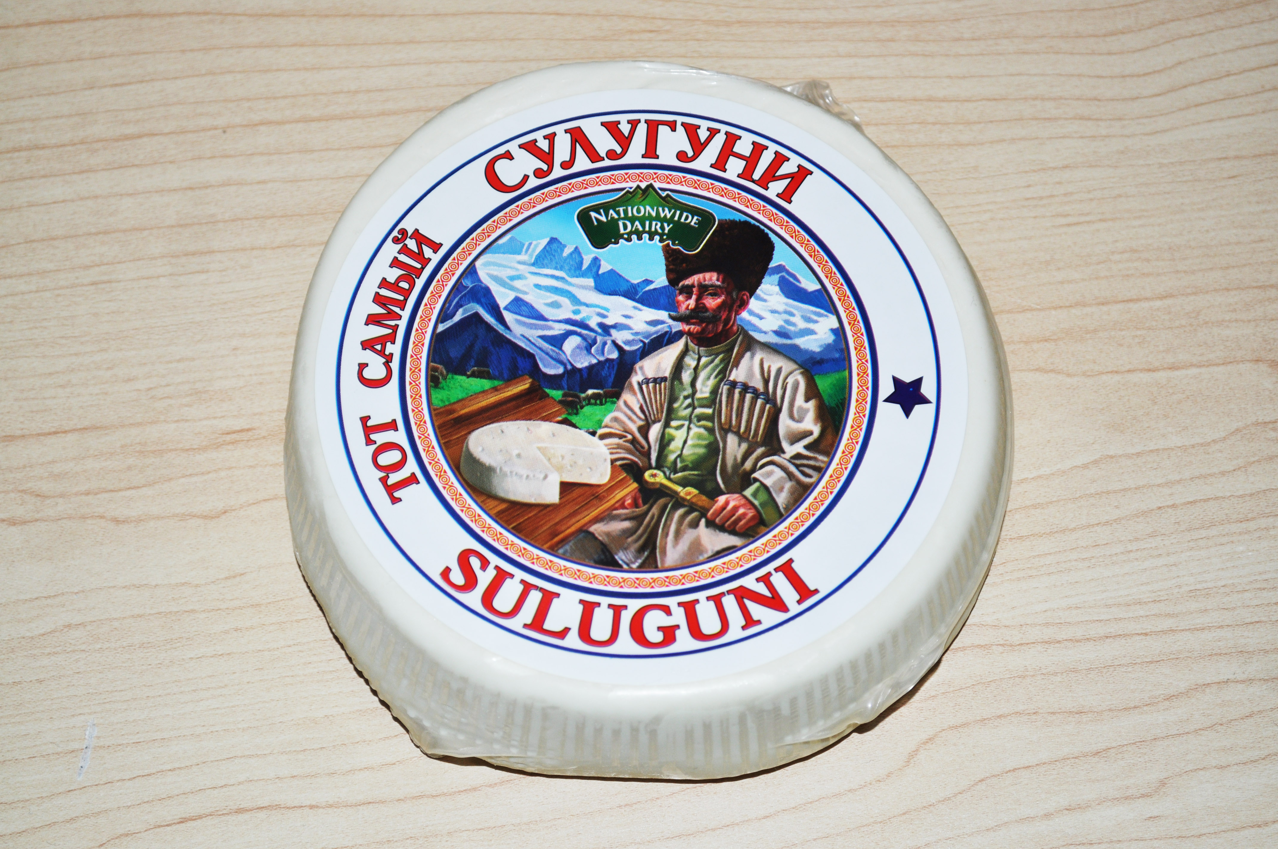 TRADITIONAL SULUGUNI CHEESE